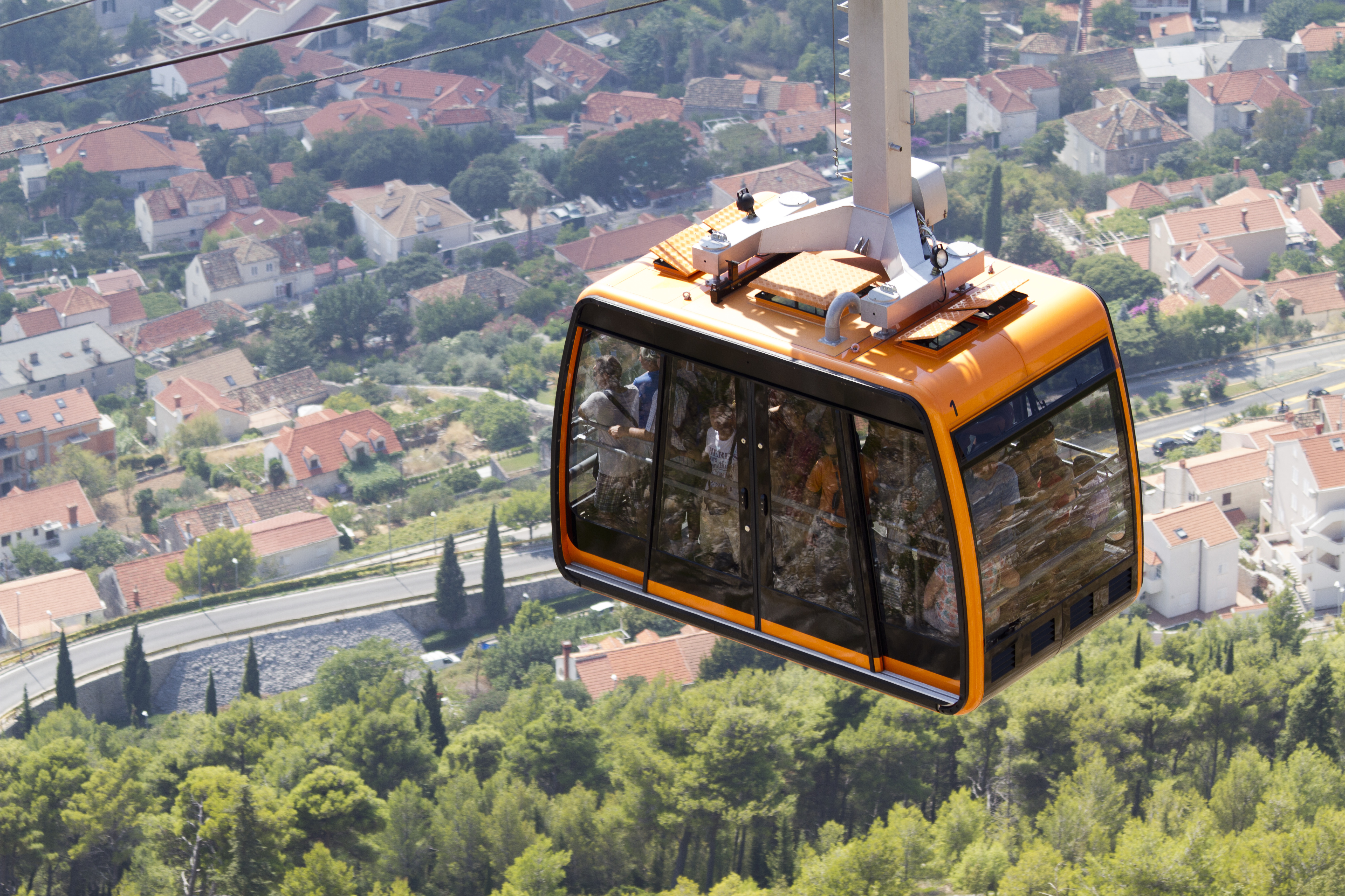 The cable car in Dubrovnik.